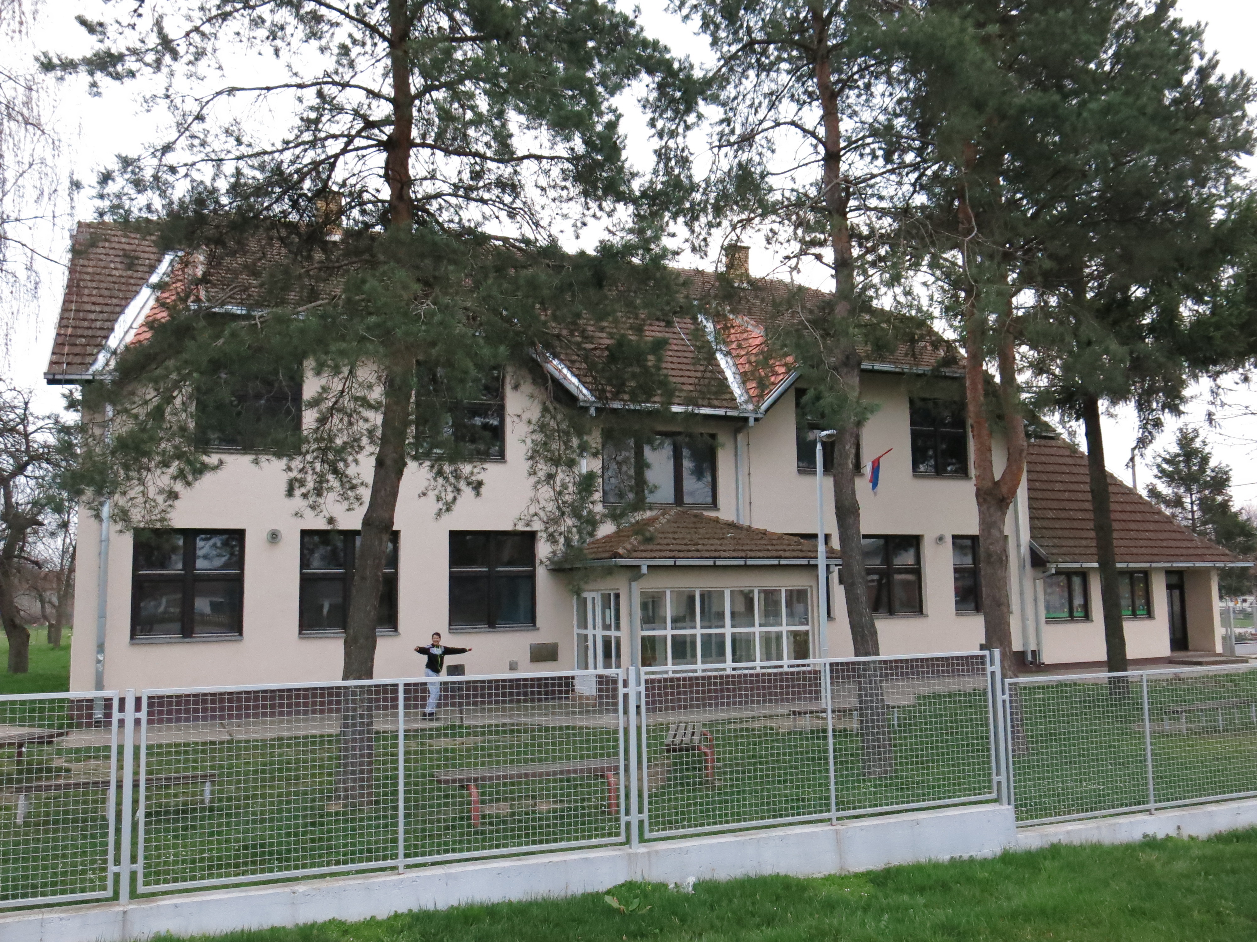 Petlovača, Elementary school Jovan Cvijić